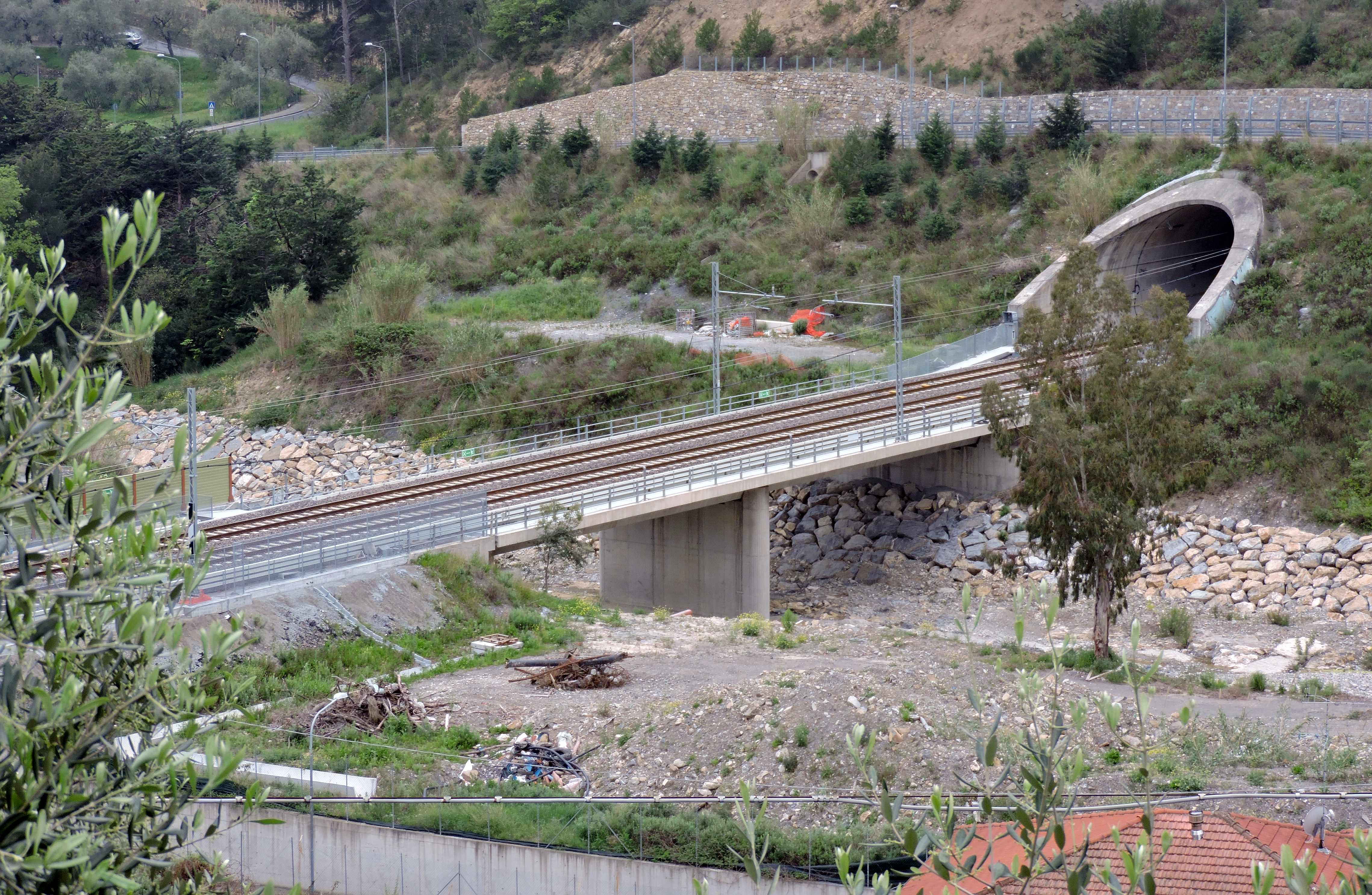 Steria: bridge of the Genova-Ventimiglia railway (IM, Italy)